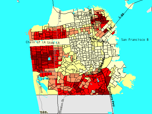 This image is a self-generated thematic map from the U.S. Census Bureau's American Factfinder at by Wikipedia user Stevey7788. Category:Maps of San Francisco Category:Images of San Francisco